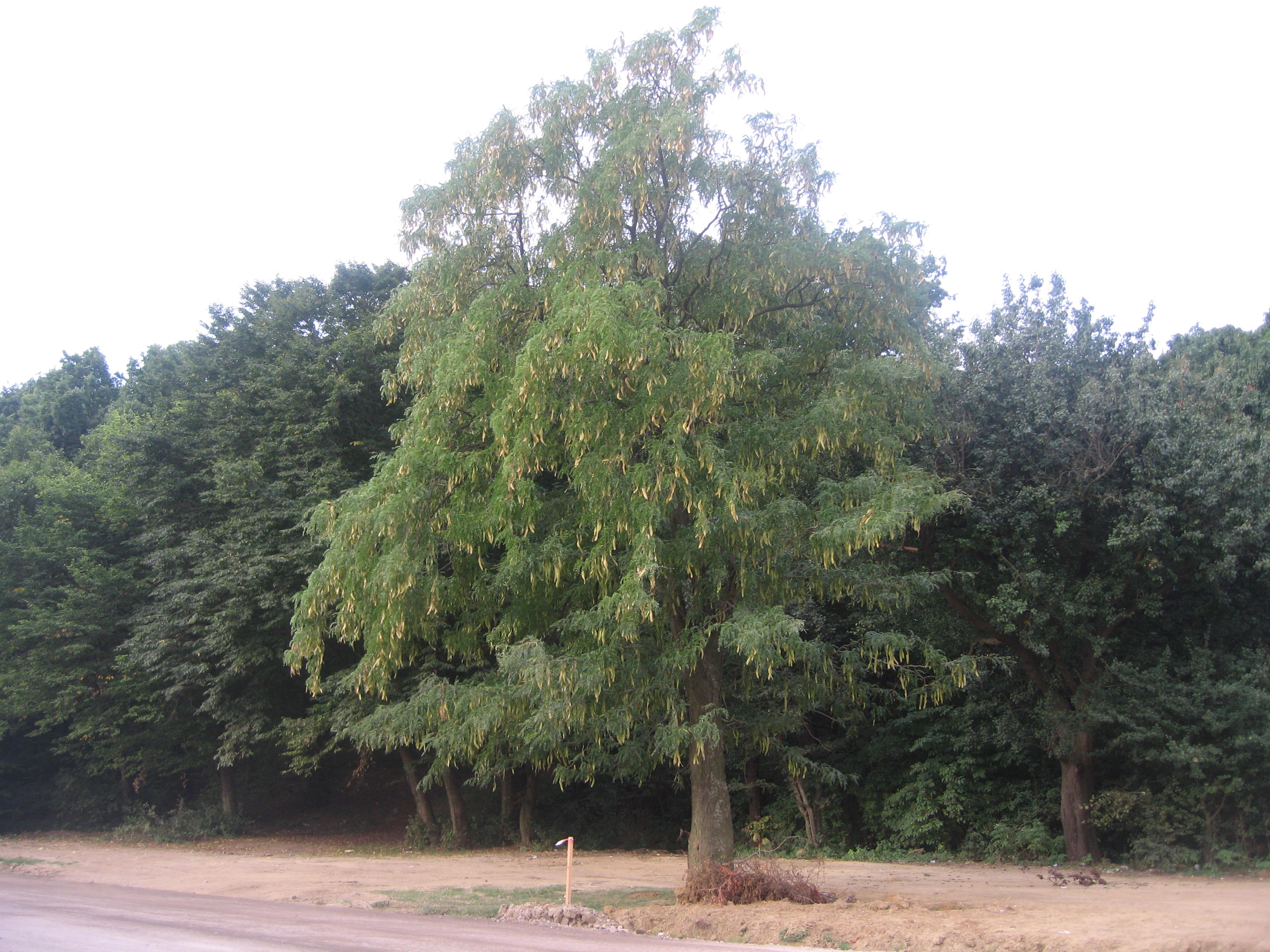 Rezervaţia Pădurea Uricani